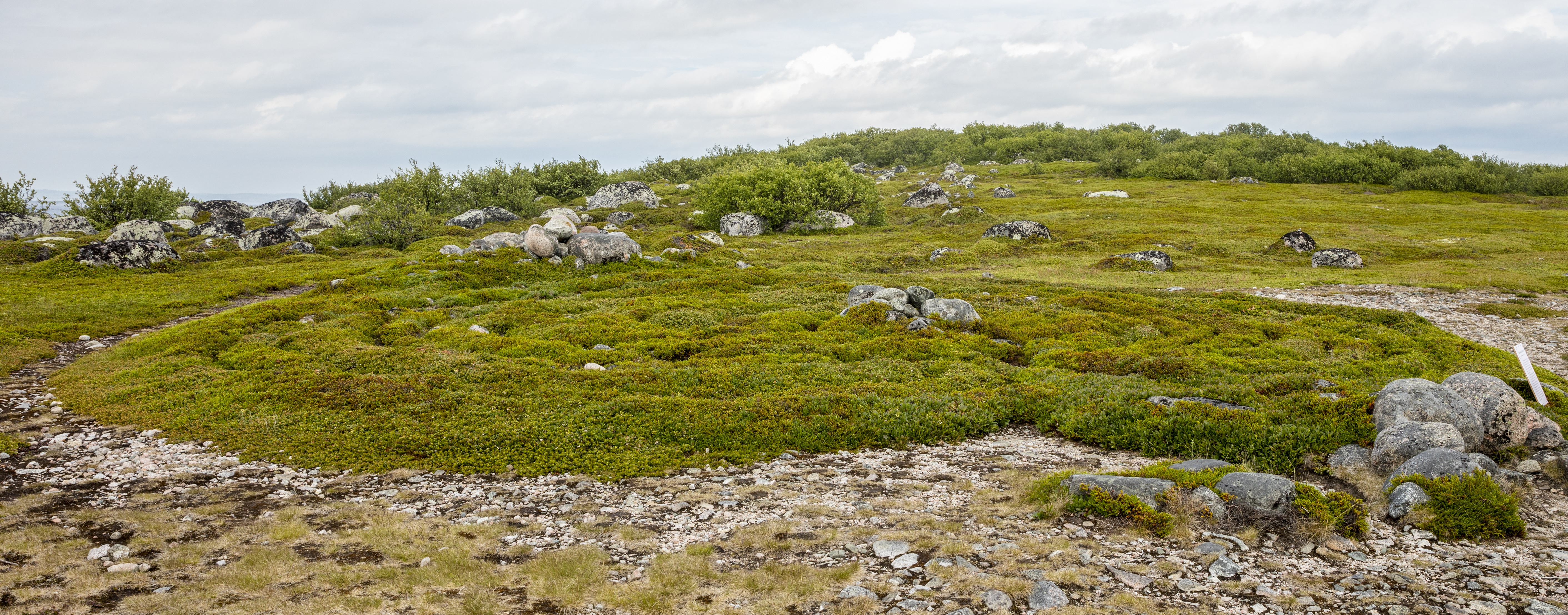 Stone labyrinth, Bolshoi Zayatsky Island, Solovetsky Islands, White Sea, Russia